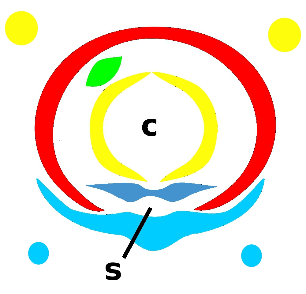 Section of mouthparts of Thysanoptera. red: labrum; green: mandible; c: food canal; yellow: maxilla and maxillar palps; dark blue: hypopharynx; s: salivary canal; light blue: labium and labial palps